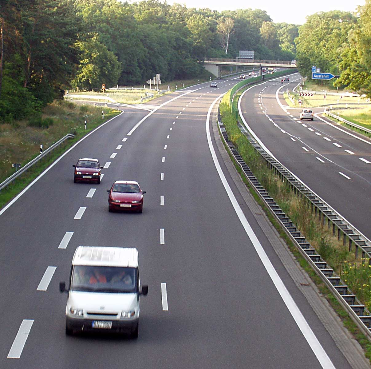 Autobahn 11 between Berlin and Szczecin at the exit Finowfurt, Brandenburg.